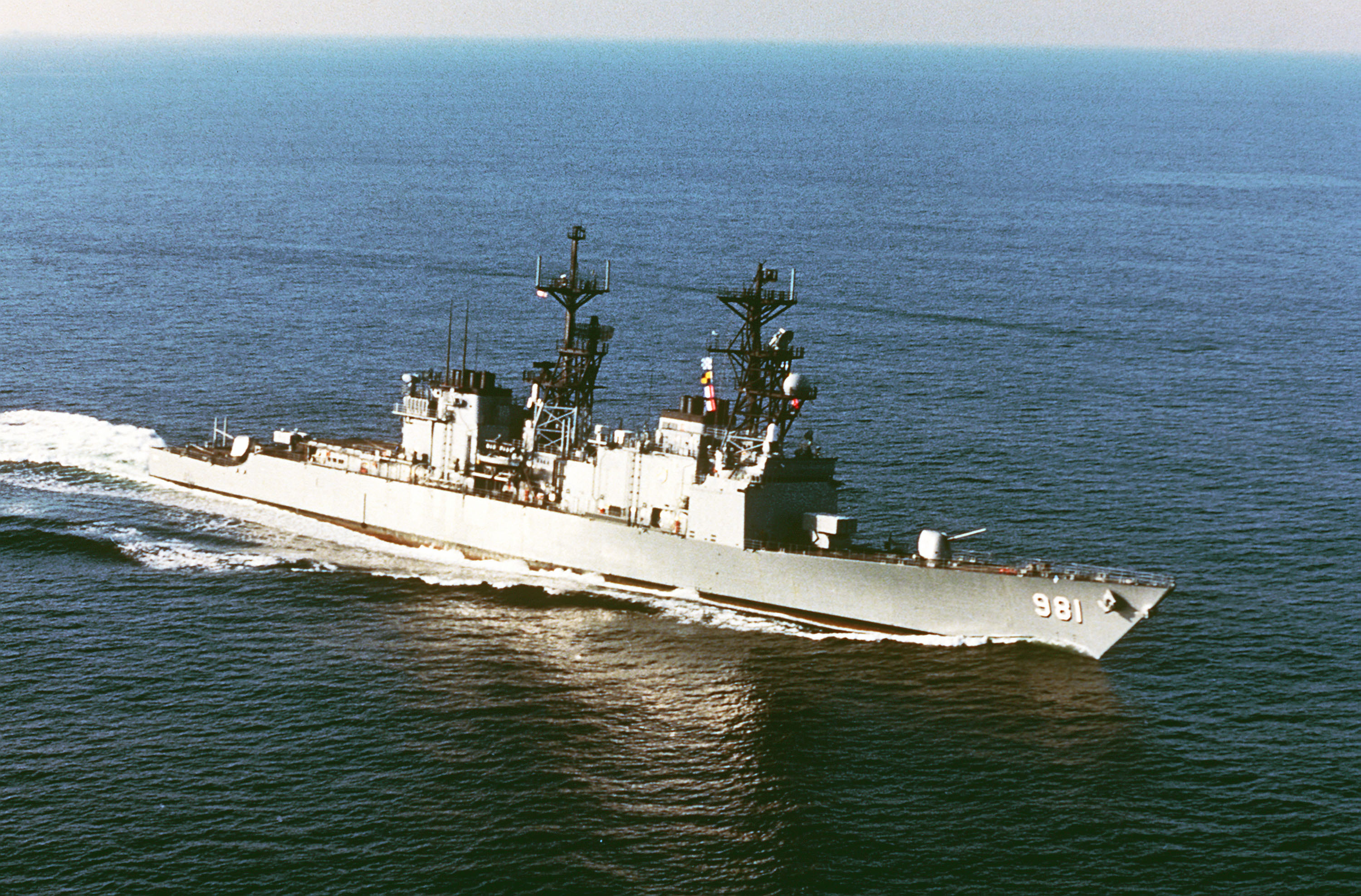 A starboard bow view of the destroyer USS JOHN HANCOCK (DD-981) underway.